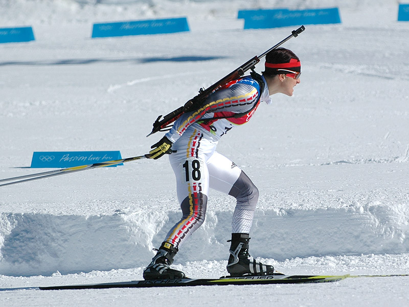 Uschi Disl at the 2006 Olympics in Torino.